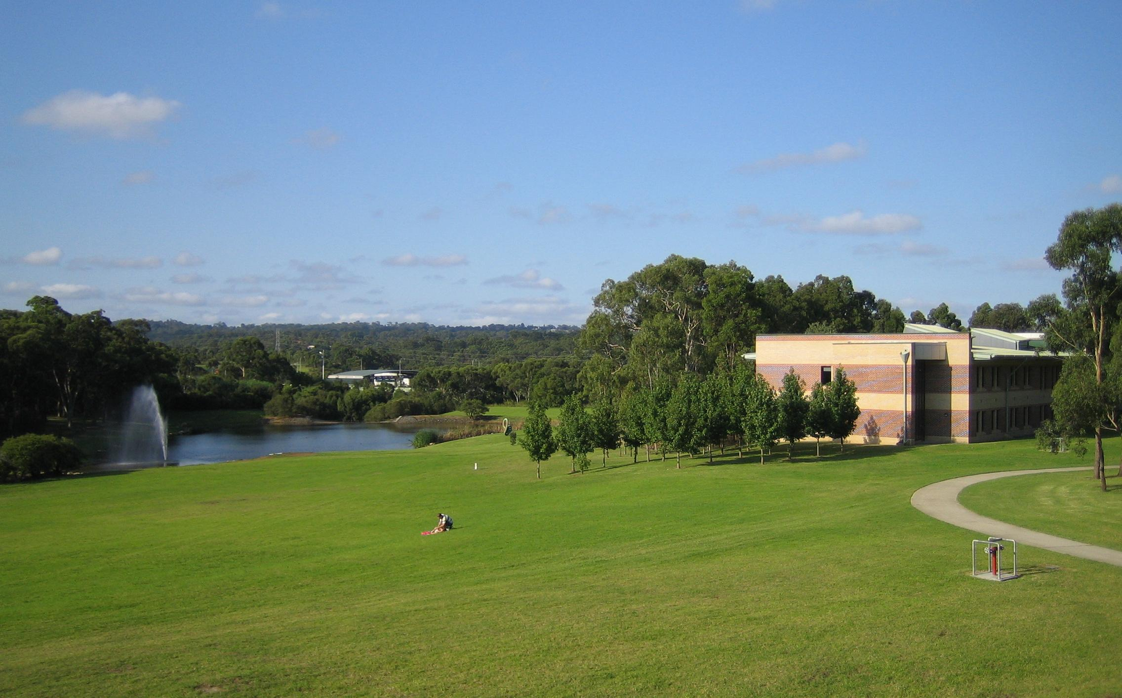 Macquarie University's grounds, featuring the lake and fountain. The photograph was taken from the SAM building food court balcony on the 23rd of February, 2005, by maebmij. Visible are the M2 motorway tollbridge (centre background) and university building E11A (right).